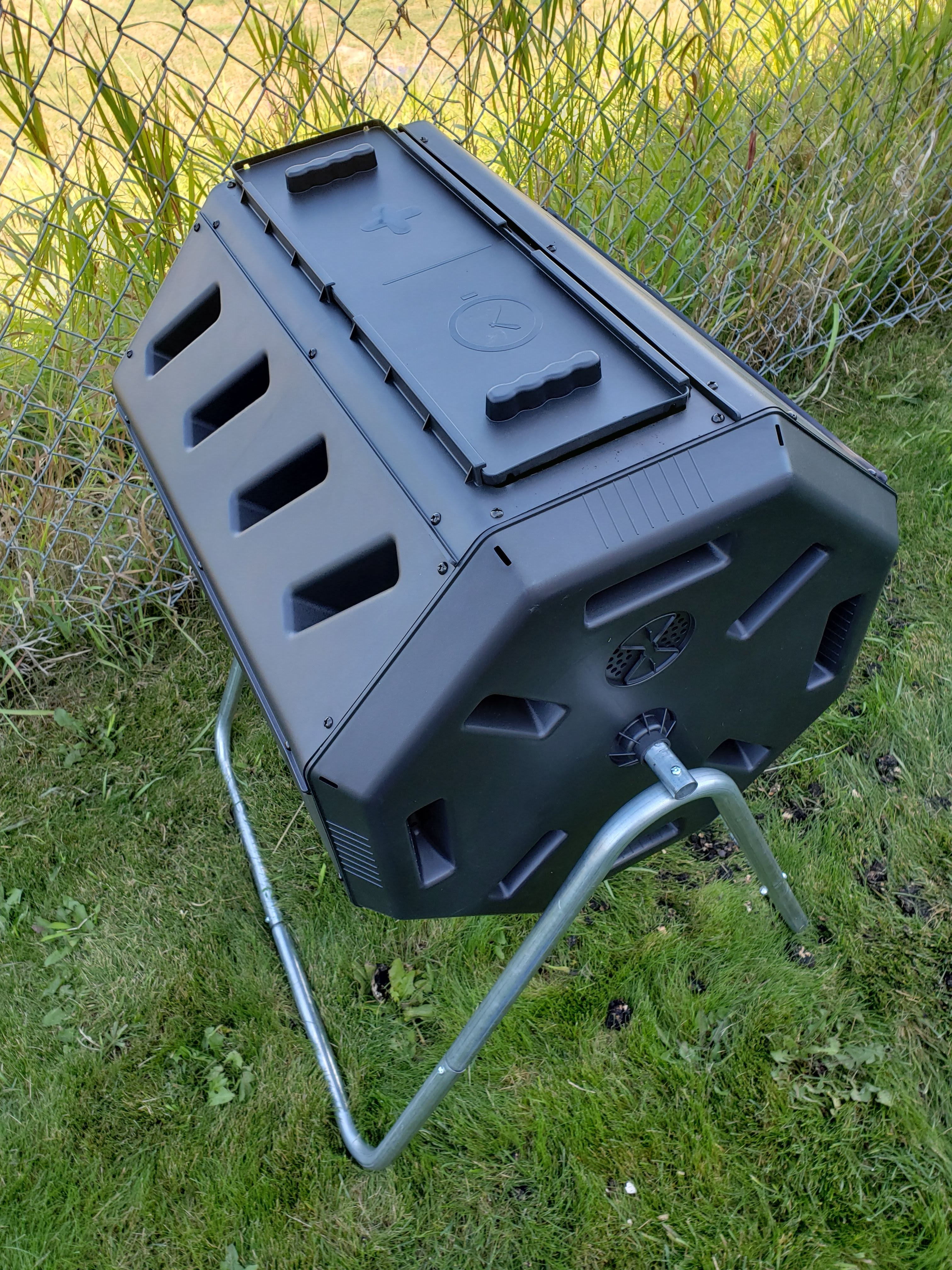 Composter